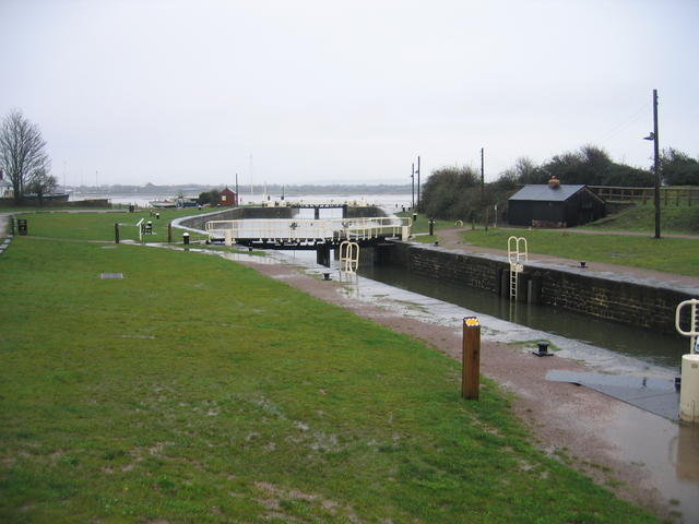 Lydney Harbour This whole area has recently benefited from grants and has been restored as an operational harbour for leisure boating. This view shows the inner lock with the half tide basin beyond and, in the next square the sea gates out into the Severn Estuary.